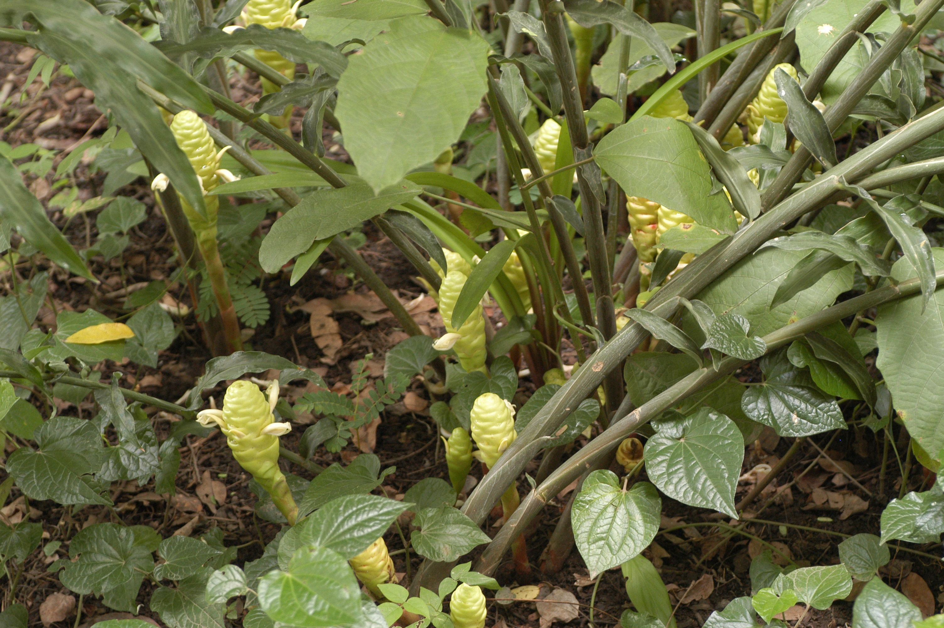 Zingiber zerumbet